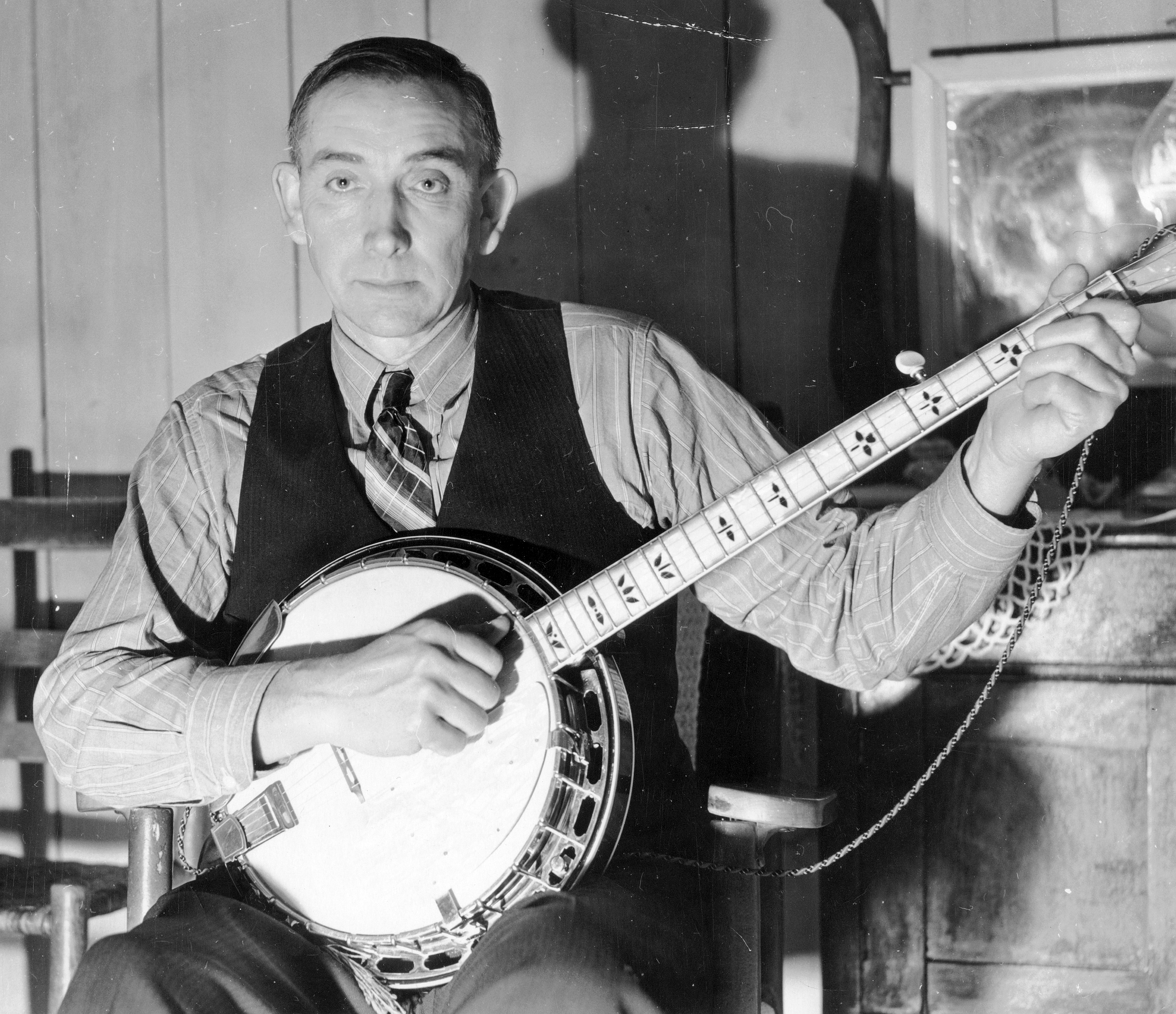 American old-time music fiddler and banjoist Wade Ward (1892-1971) of Bog Trotters Band, with banjo, Galax, Virginia